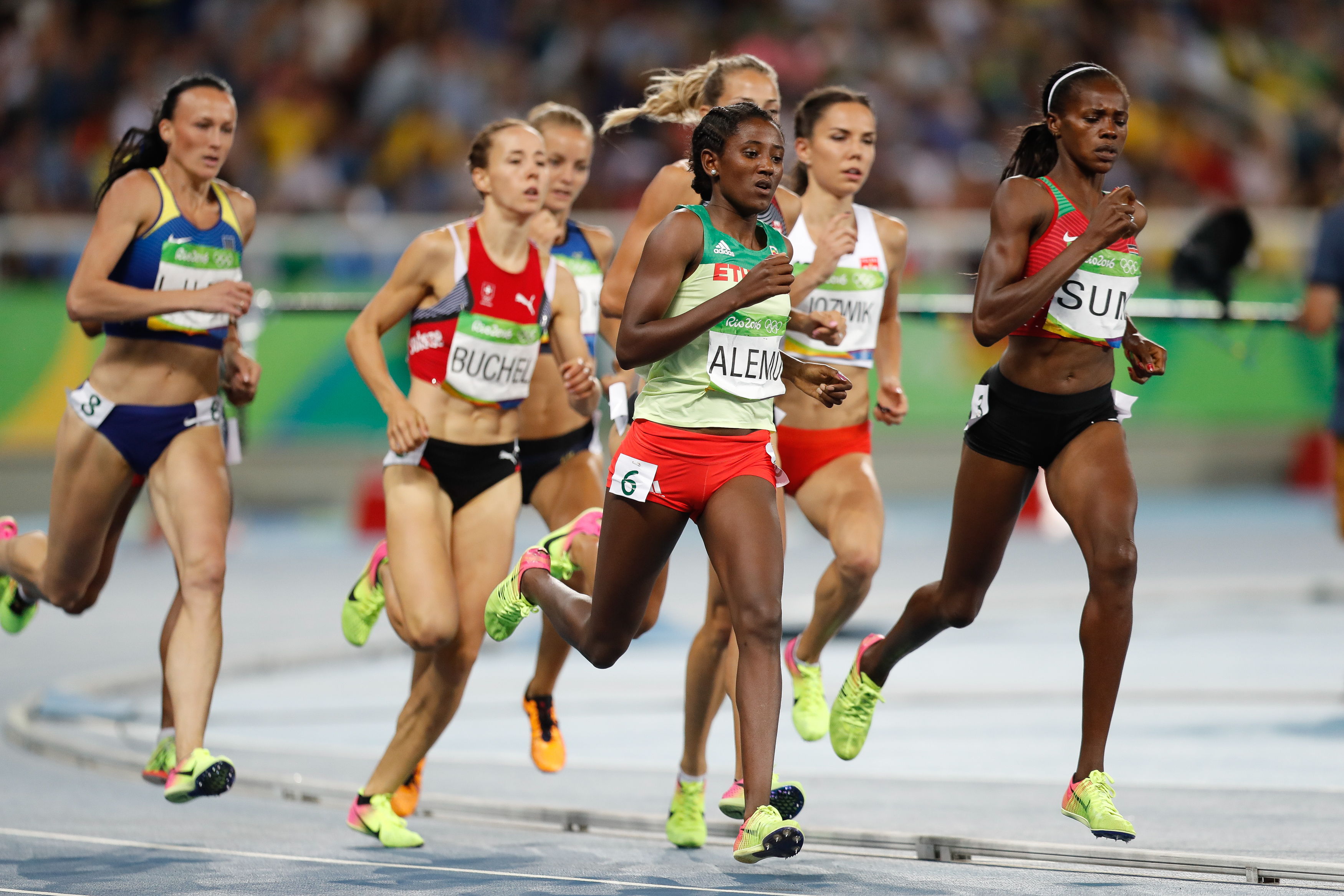 Rio de Janeiro - Semifinais dos 800m feminino nos Jogos Rio 2016, no Estádio Olímpico. (Fernando Frazão/Agência Brasil)